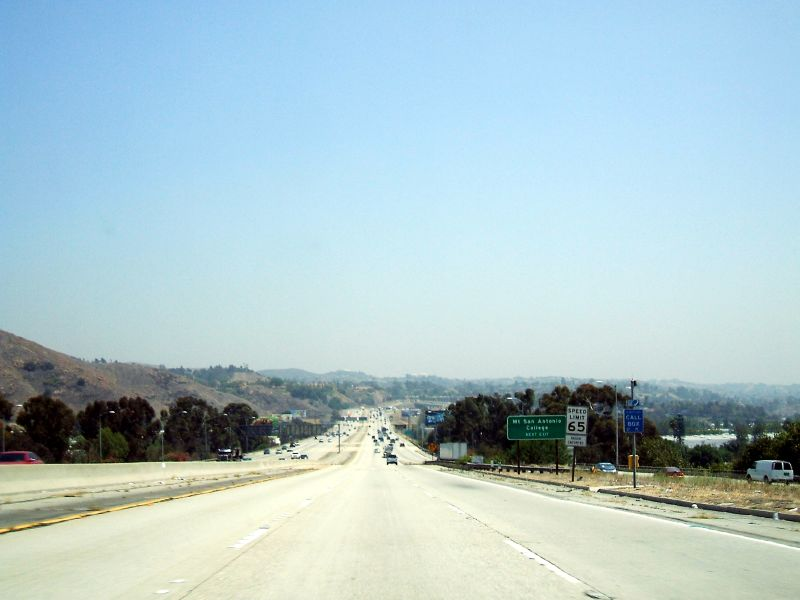 Driving home from San Dimas, Ca.